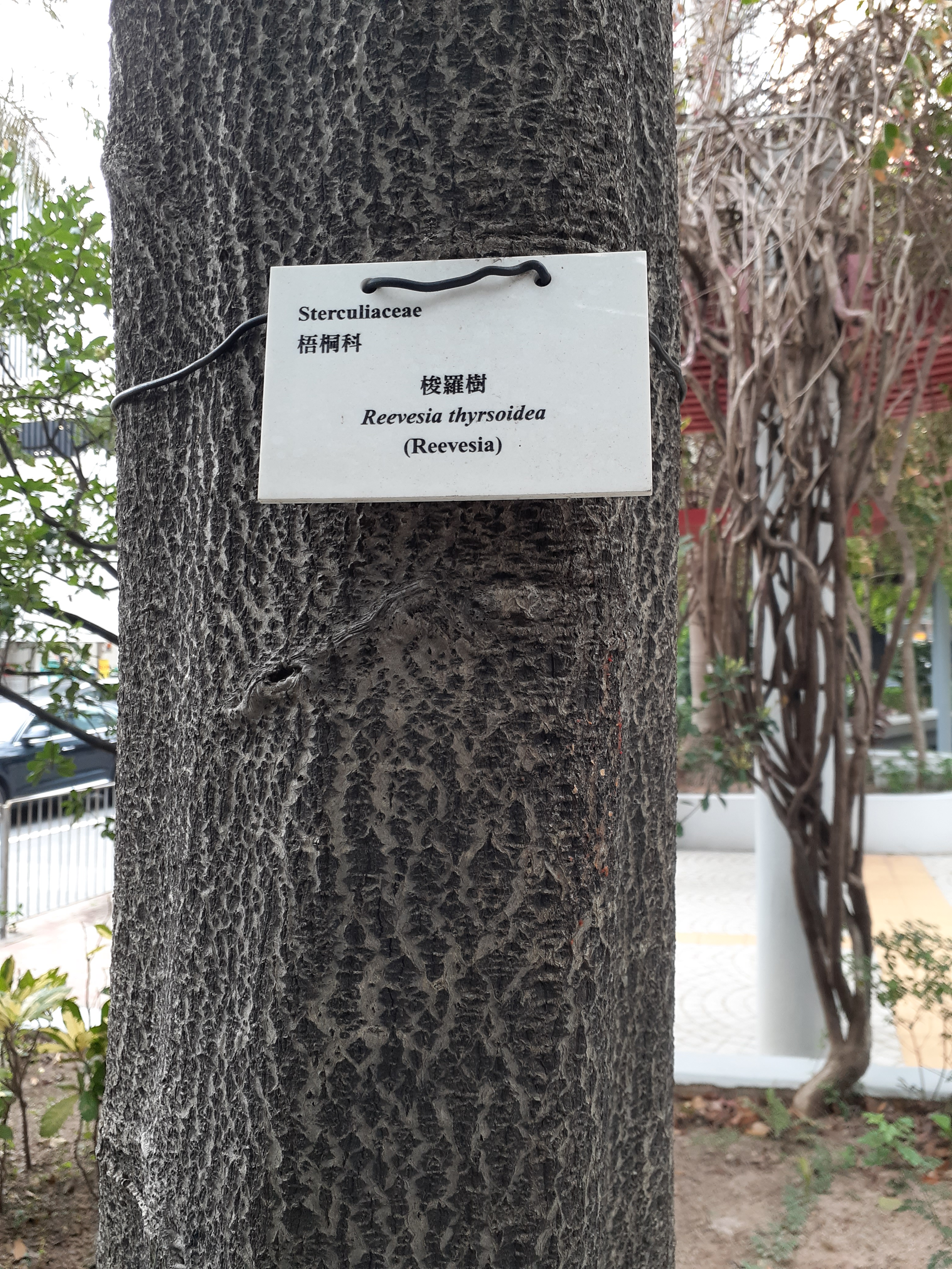 HK 中環 Central 美利道 Murray Road 琳寶徑休憩公園 Lambeth Walk Rest Garden in March 2020